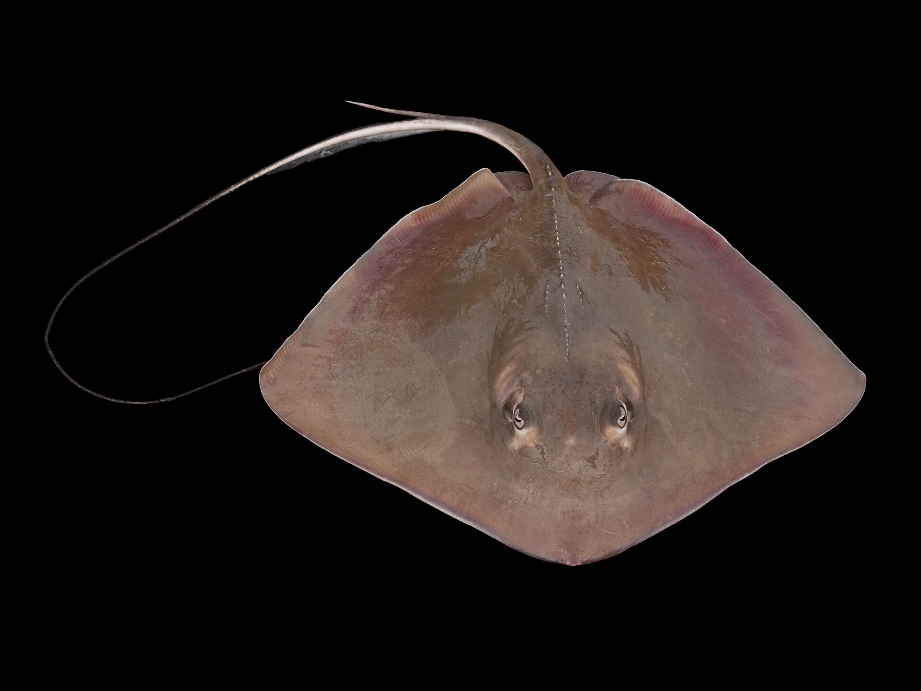 Southern stingray caught offshore off Paramaribo, Suriname. The co-ordinates are the approximate catching location.